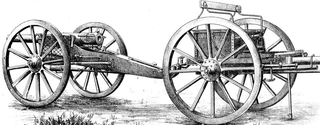 75 mm field gun "Krupp", model 1880